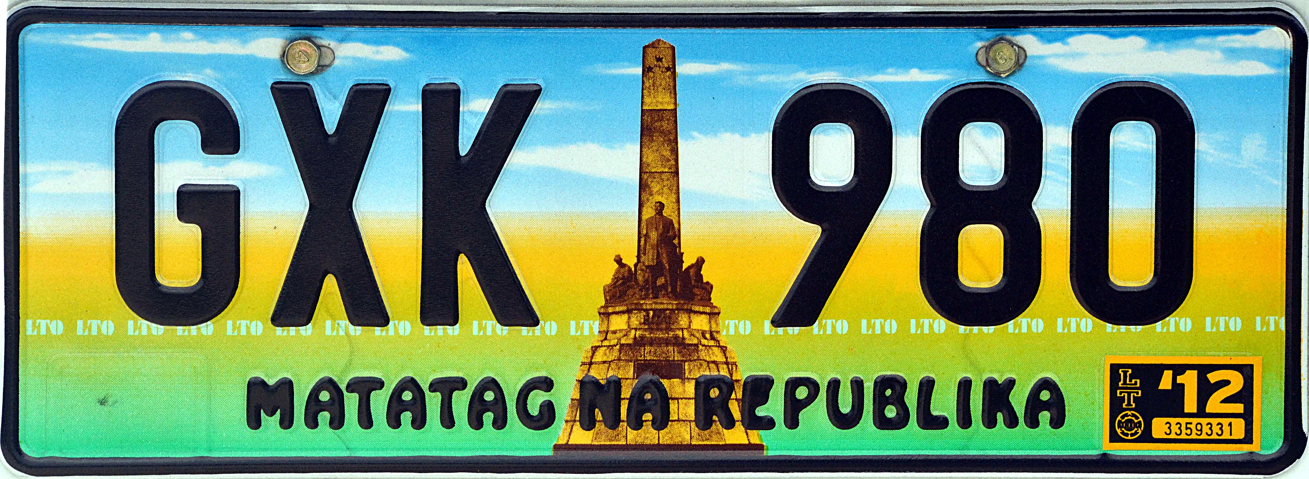 Licence plate from Central Visayas, Philippines